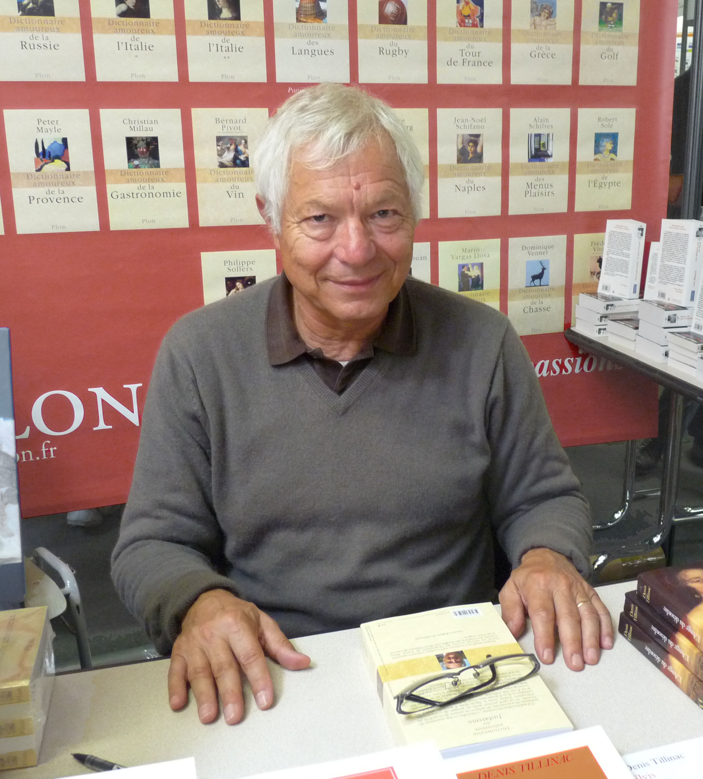 French writer and jjournalist Denis Tillinac